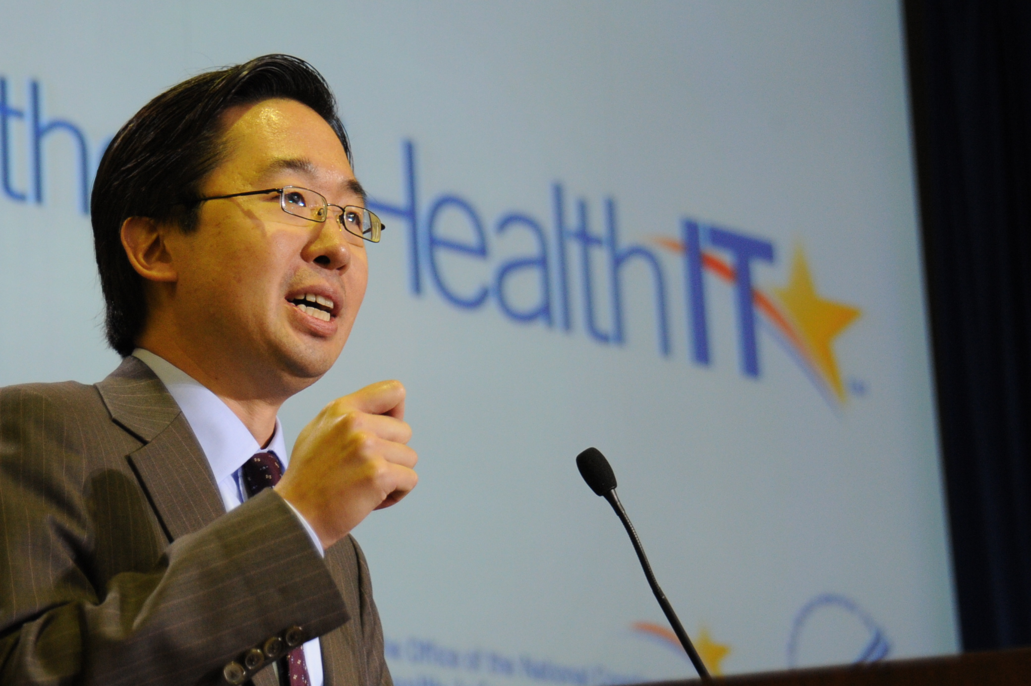 HHS CTO Todd Park speaks at ONC's Consumer E-Health Summit HHS photo by Chris Smith